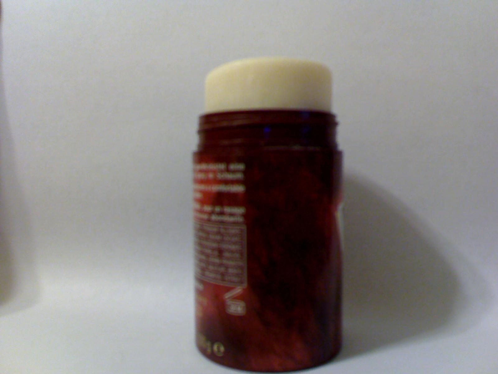 Tabac shavestick